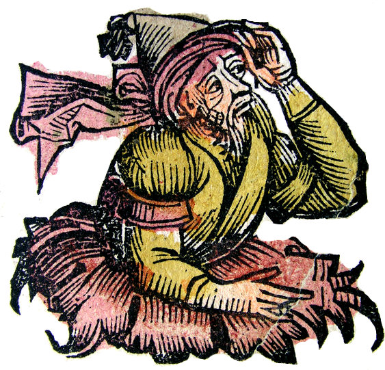 Merlin, Illustrations from the Nuremberg Chronicle, 1493, by Hartmann Schedel (1440-1514)